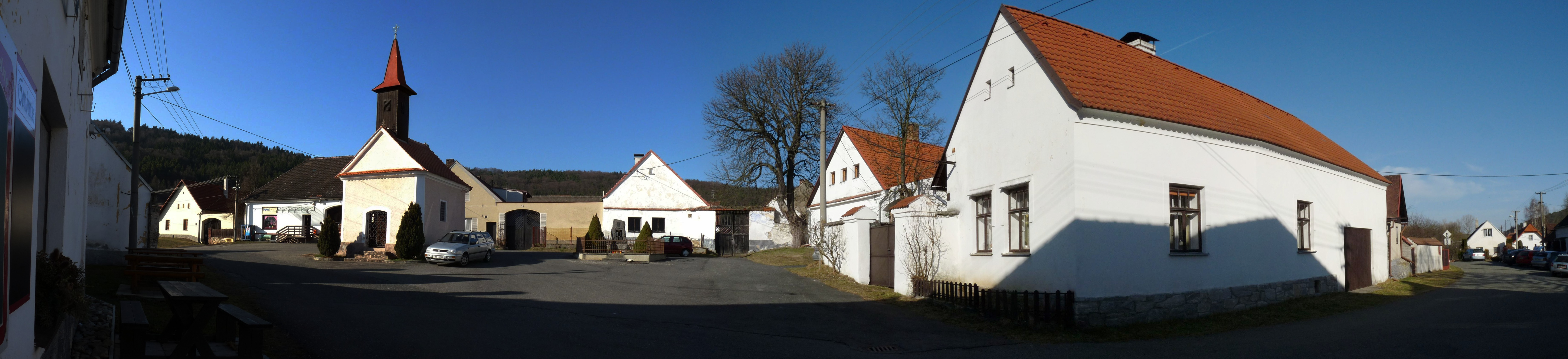 Chapel in the village of Čepice, Klatovy District, Czech Republic - panorama